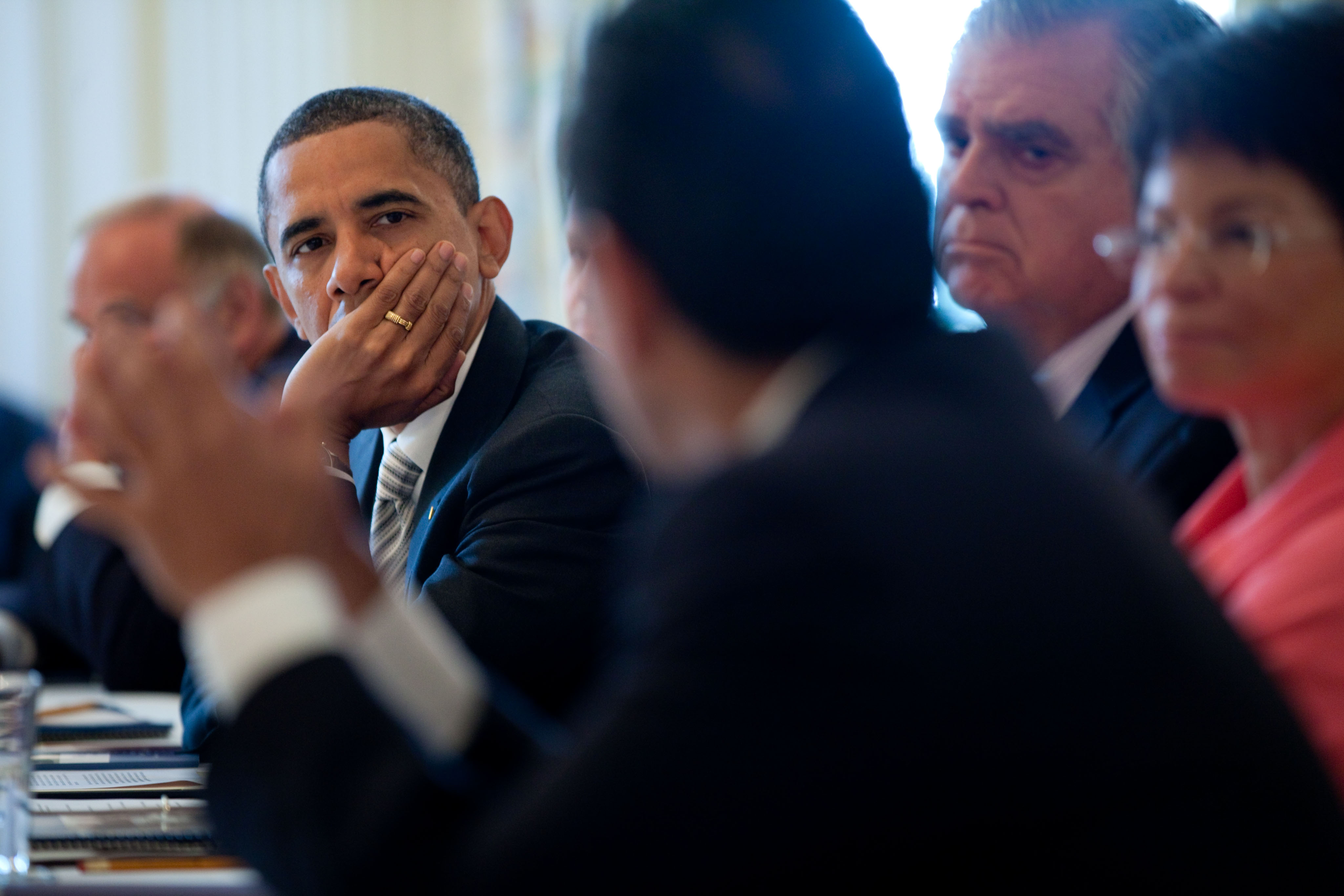 President Barack Obama listens to Los Angeles Mayor Antonio Villaraigosa during a meeting on infrastructure investment in the State Dining Room of the White House, Oct. 11, 2010. (Official White House Photo by Pete Souza) This official White House photograph is in the public domain from a copyright perspective, so while restrictions such as personality or privacy rights may apply, in general, manipulations are allowed.